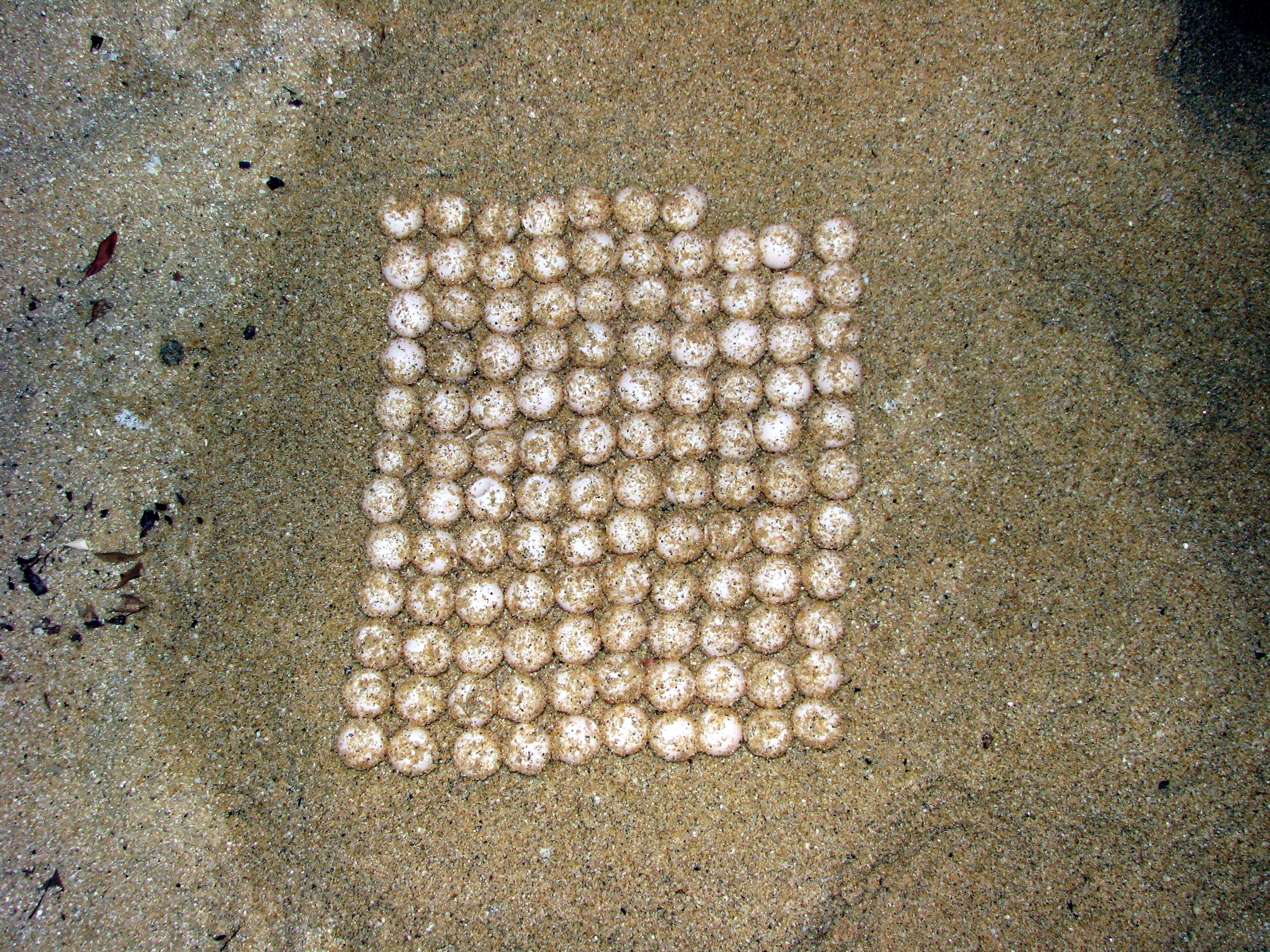 Turtle eggs on Inakahama Beach Yakushima. Researchers dug some nests close to the shore out, counted the eggs, and buried them again on a safer location a bit further away from the shore to have them protected in case of a taifun. No eggs were harmed in the process. The turtle is most likely a Caretta caretta (loggerhead turtle). There were a total of 117 eggs in the nest, slightly less than the average of ca. 130.